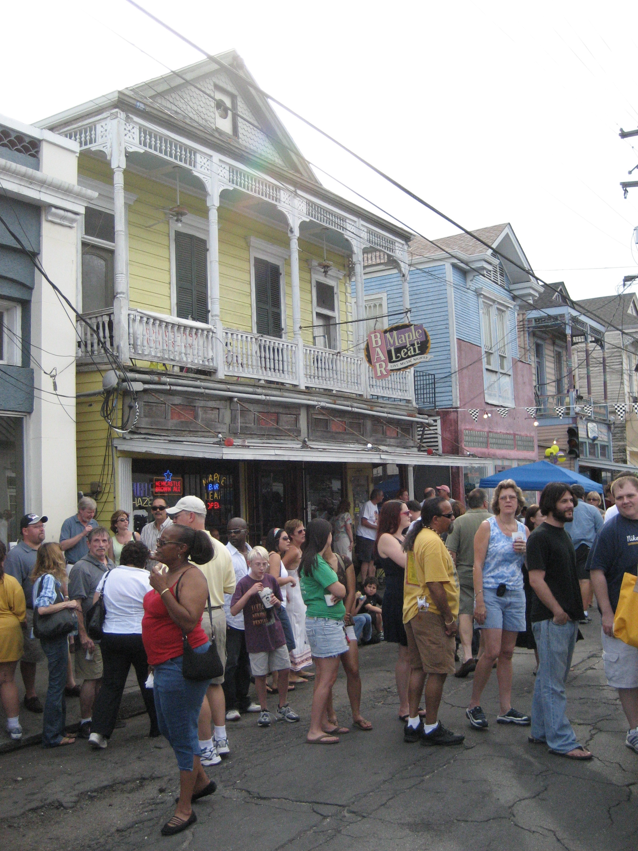 Street festival in the Oak Street commercial district, Carrollton neighborhood of New Orleans